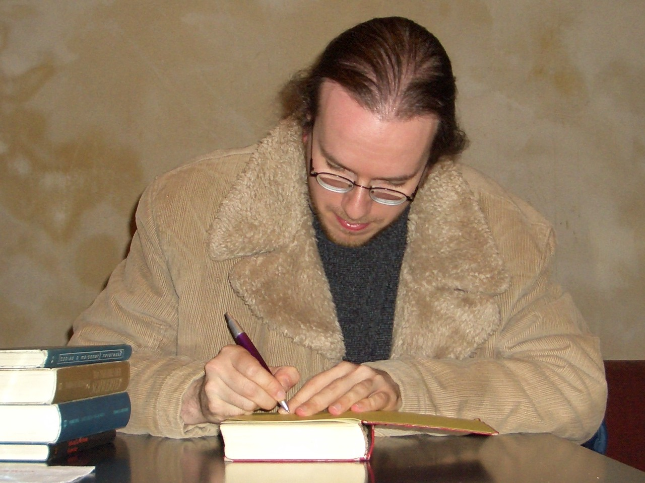 Tobias O. Meißner signing books after a reading session at Dec. 2, 2006 in Mainz, Germany